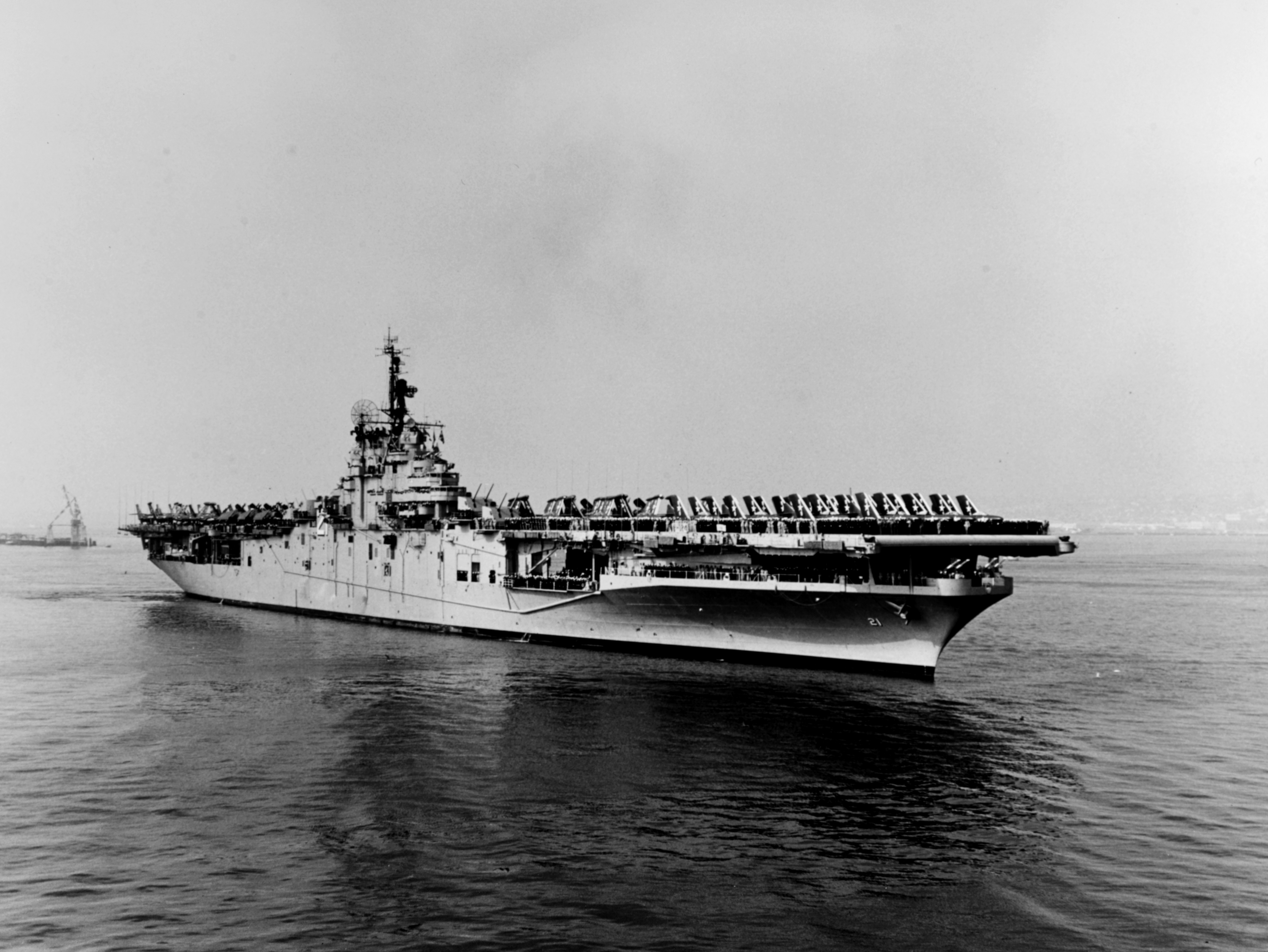 The U.S. Navy aircraft carrier USS Boxer (CVA-21) in port, probably in San Francisco Bay, California (USA). Note: The description states that the photo was taken on 18 November 1953. However, Boxer returned from the Western Pacific on 28 November 1953 with Air Task Group 1 (ATG-1). None of the squadrons of ATG-1 were equipped with the Grumman F9F-6 Cougar that are parked on the forward flight deck. The swept-wing version of the F9F Panther arrived to late to participate in the Korean War, and Boxer had left the U.S. West Coast already on 30 March 1953 (the war ended on 27 July 1953). During her next deployment from 3 March to 11 October 1954, the embarked Carrier Air Group 12 (CVG-12) had two squadrons equipped with the F9F-6. Also, by early 1955, the SK-2 radar antenna (visible on the island) been replaced by SPS-6B. (See also [1])